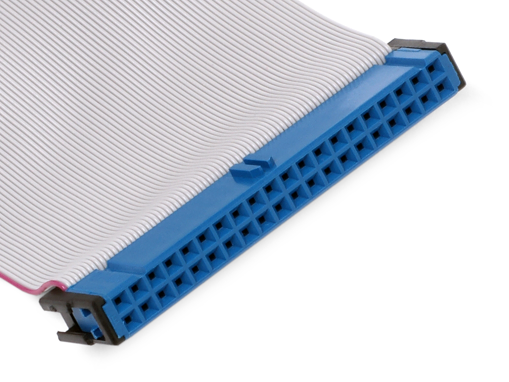 a parallel-ata cable for connecting devices to the motherboard of a computer